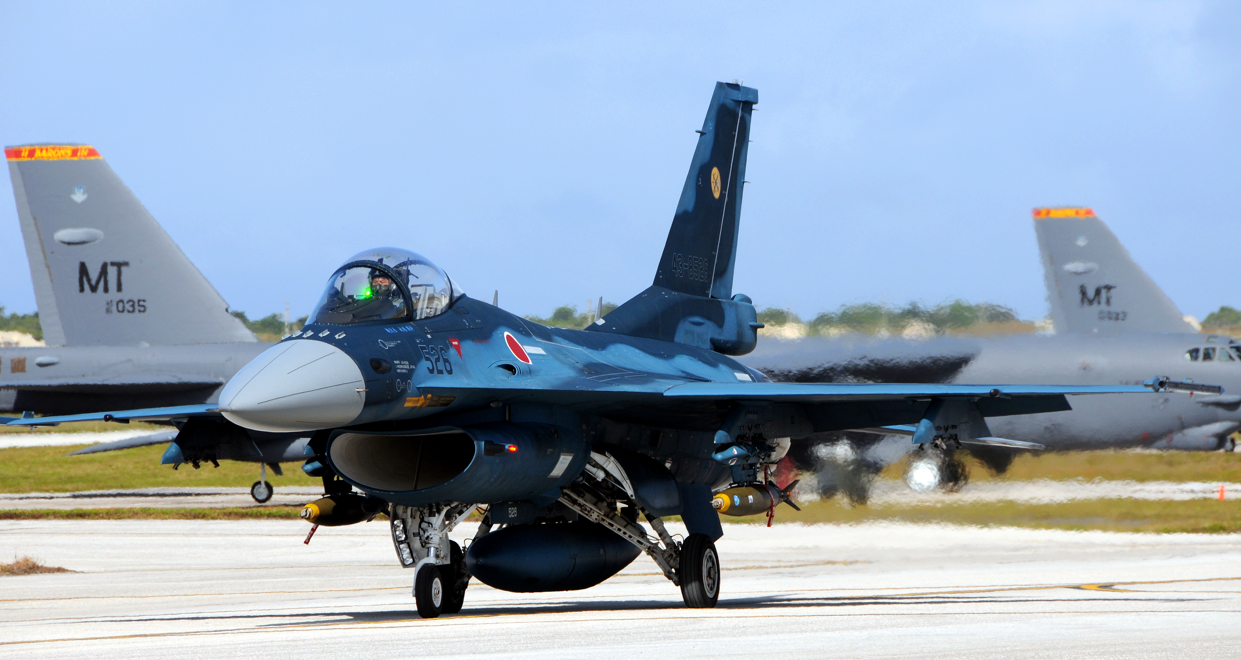 ANDERSEN AIR FORCE BASE, Guam - Japan Air Self Defense Force F-2A taxis down the runway here during an exercise for Cope North Feb. 5. Cope North 09-1 is the first iteration of a regularly scheduled joint and bilateral exercise and is part of the on-going series of exercises designed to enhance air operations in defense of Japan. (U.S. Air Force photo by Airman 1st Class Courtney Witt)(released)